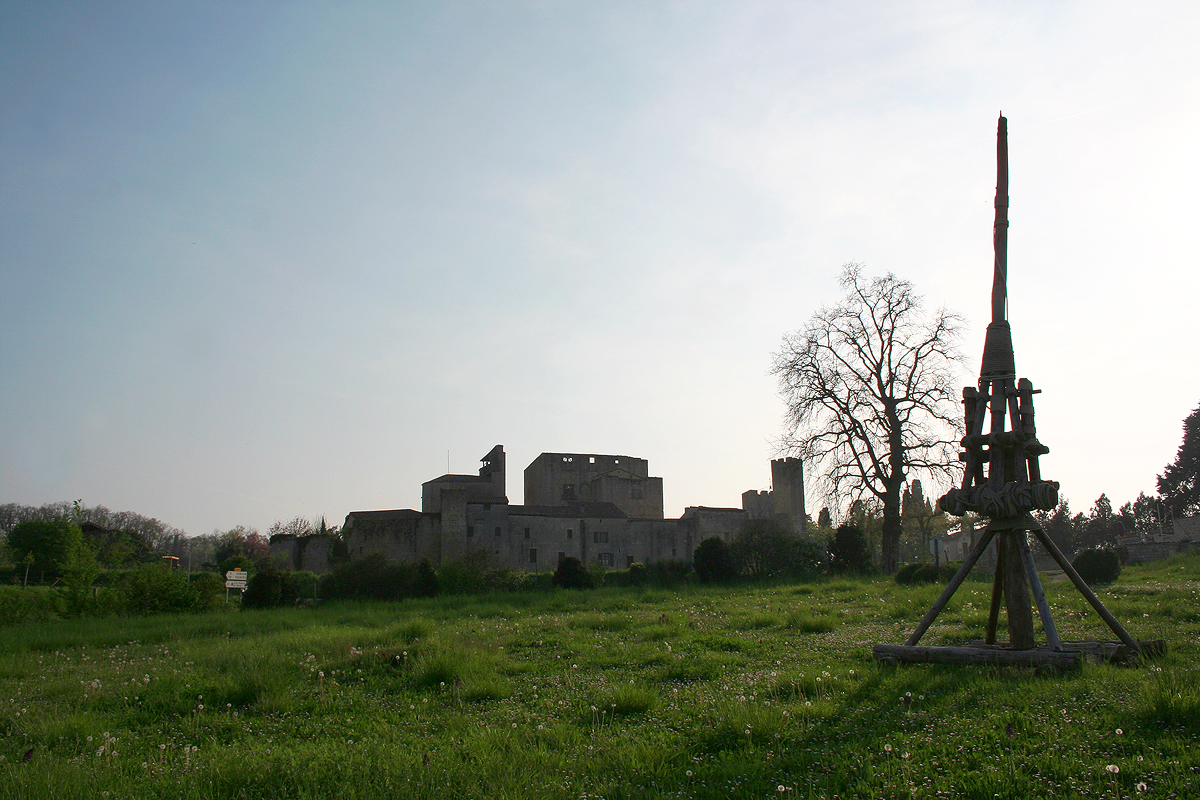 A "pierriere" in the "City of the machines", Larressingle, Gers (France). Une pierrière, à la «Cité des machines», Larressingle (Gers).